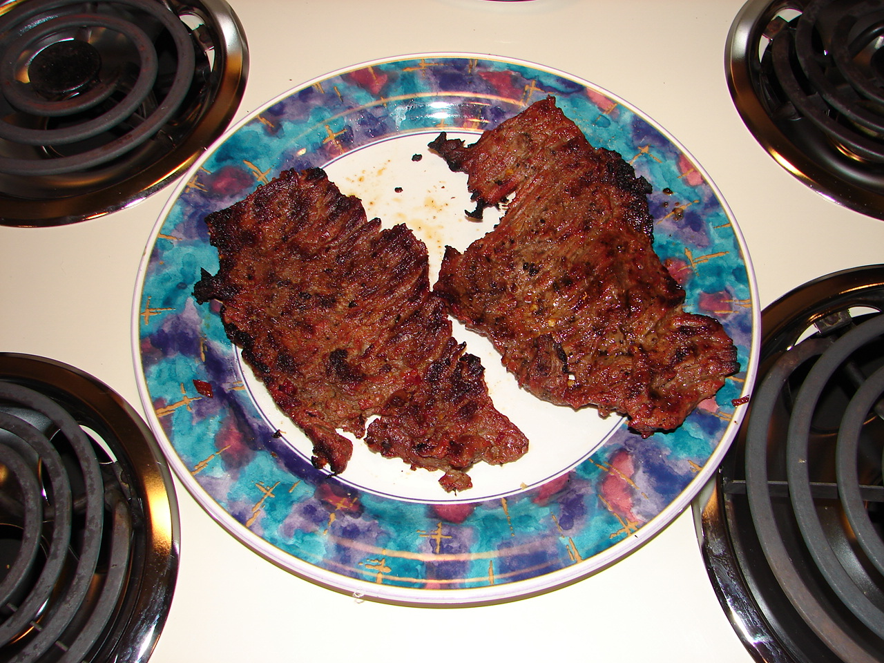 Marinated skirt steak grilled arrachera style